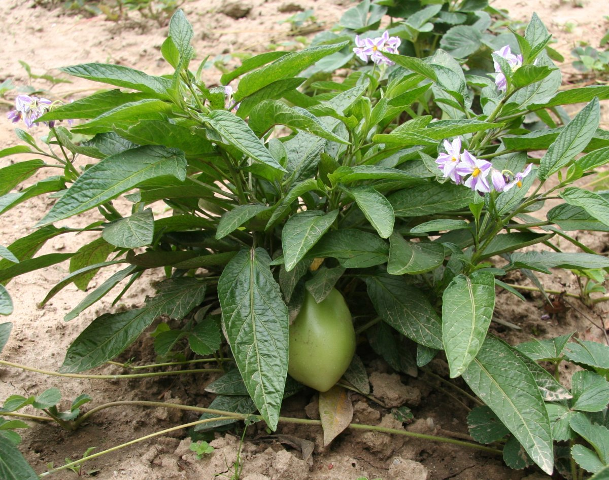 Solanum muricatum Flower and Fruit